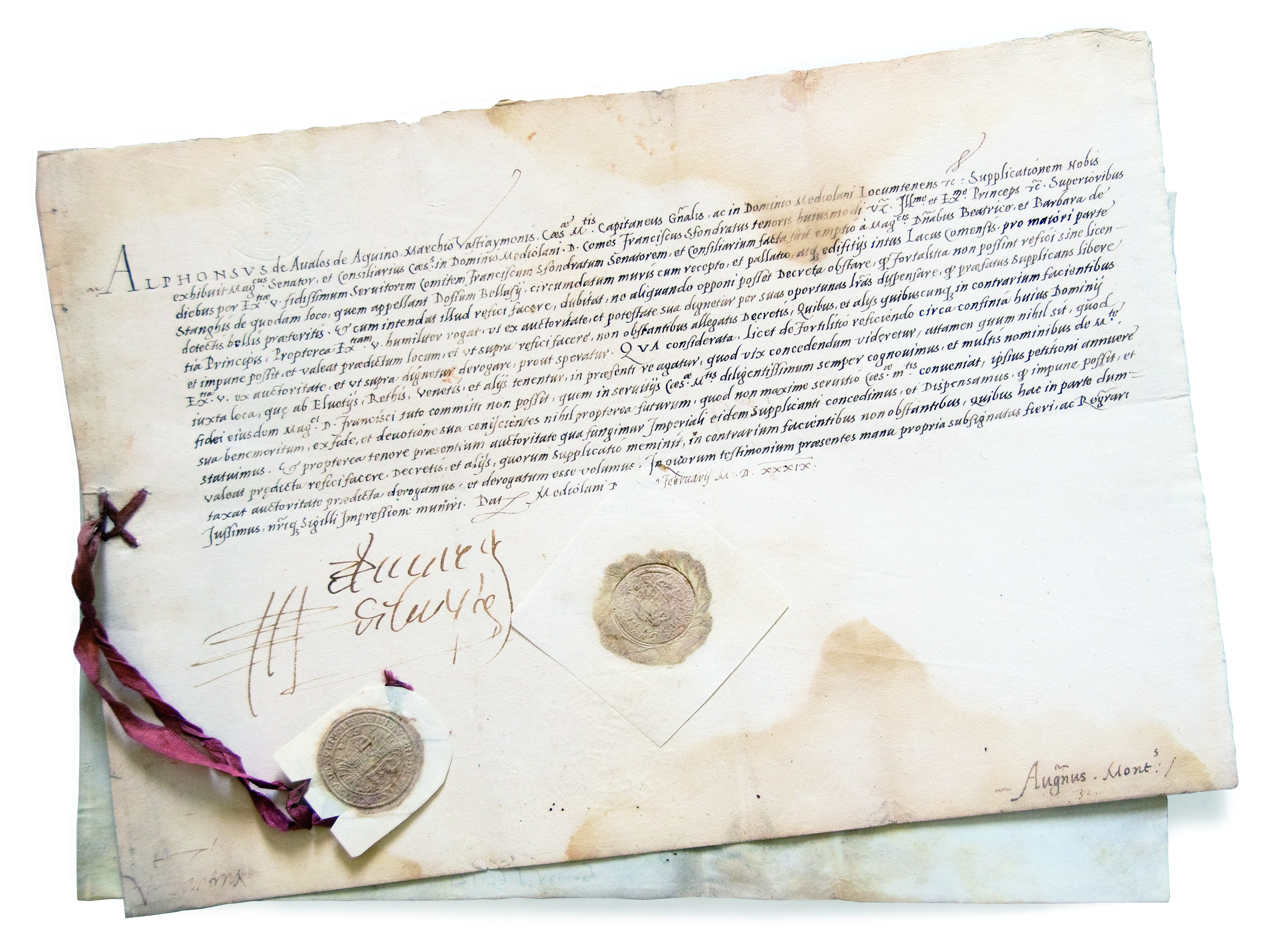 Photos of documents of Archivio Pietro Pensa made by Rockefeller Foundation, Studio Grafico Sintesi for the Rockefeller Foundation Bellagio Center 50th celebration. Photos made in 2009.